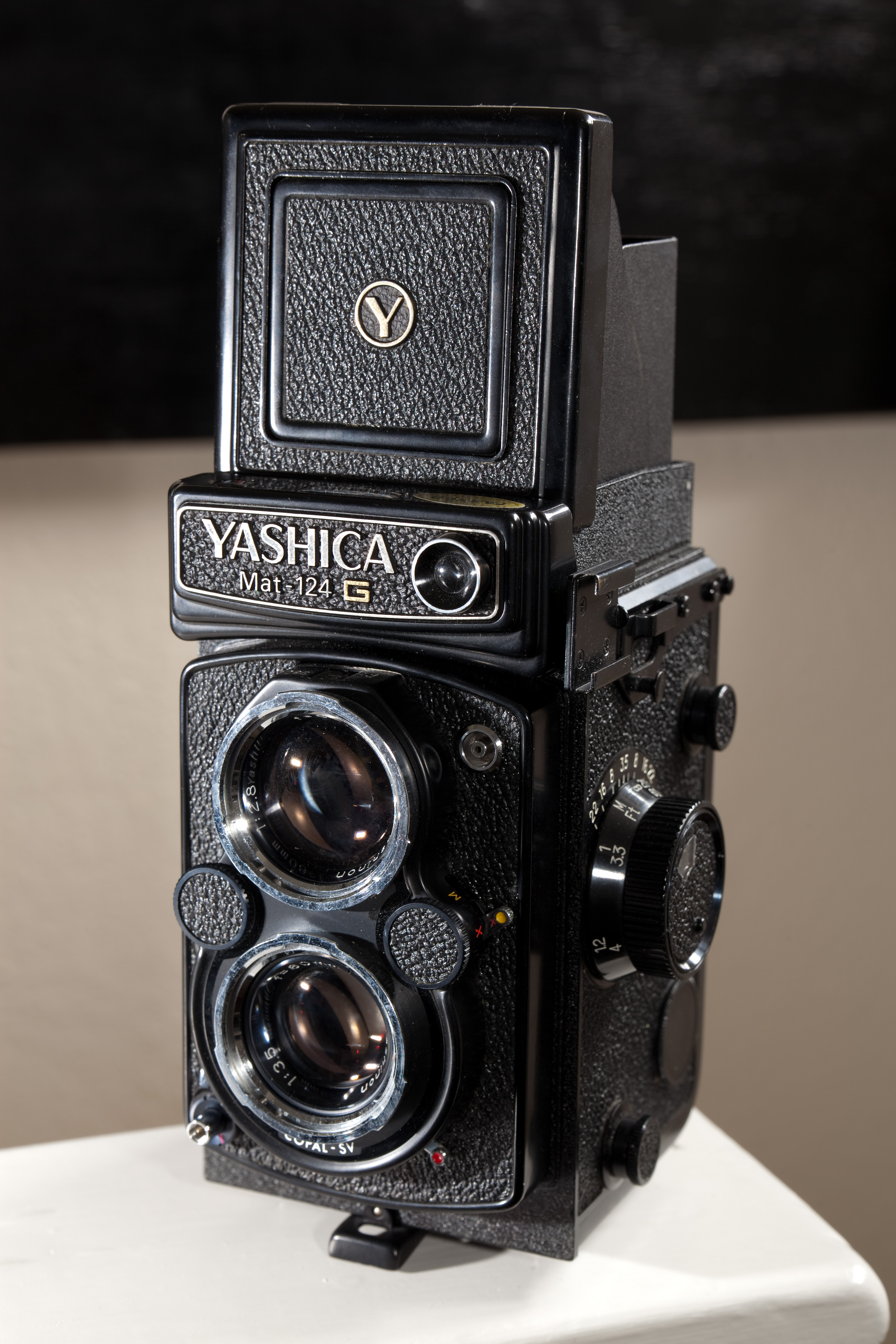 A Yashica Mat 124G medium format twin-lens reflex camera.